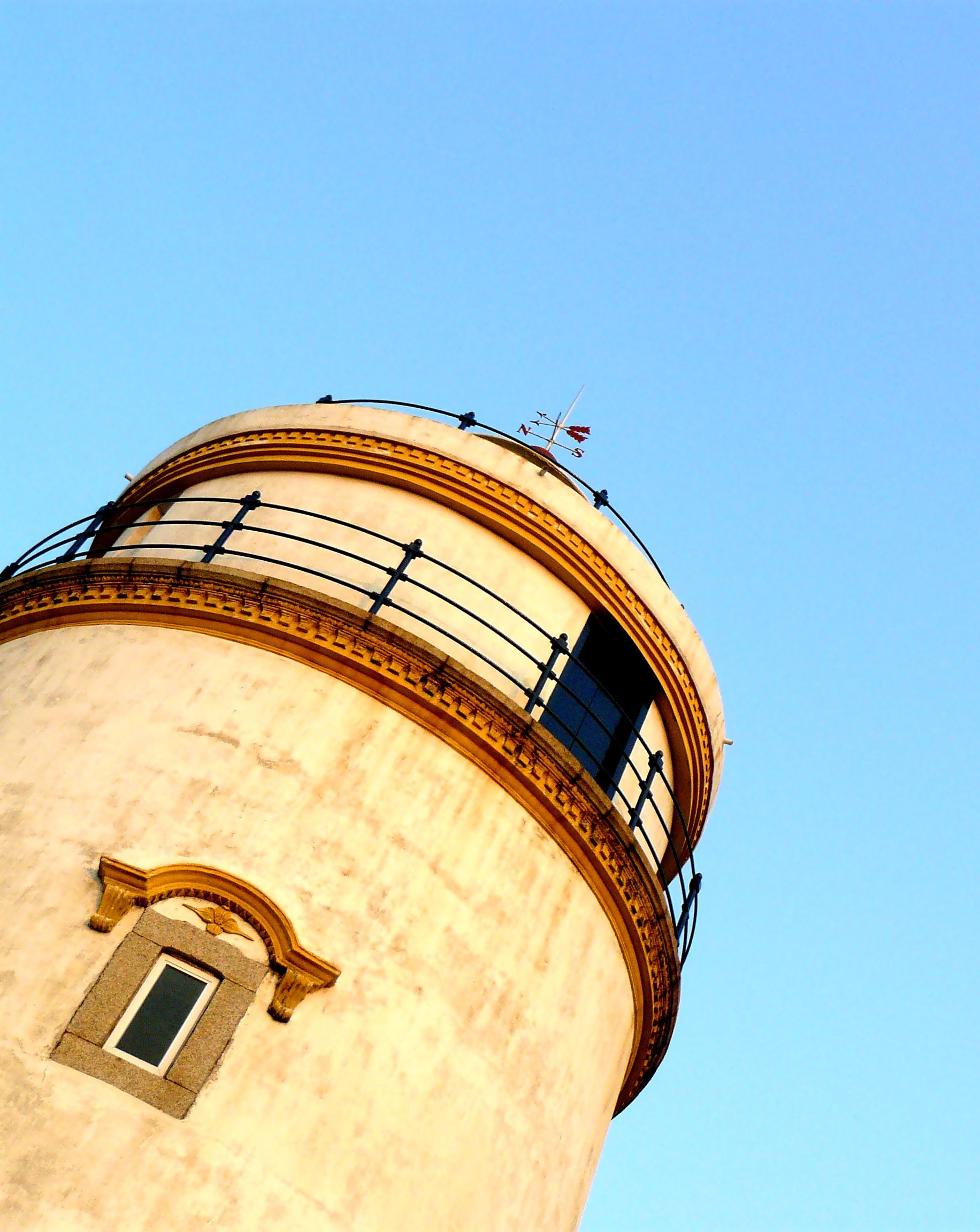 Guia Lighthouse in Macau, China